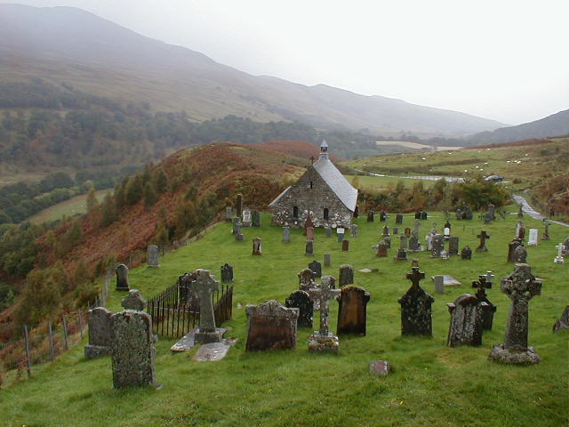 Cille Choirille Church and Graveyard. Looking west